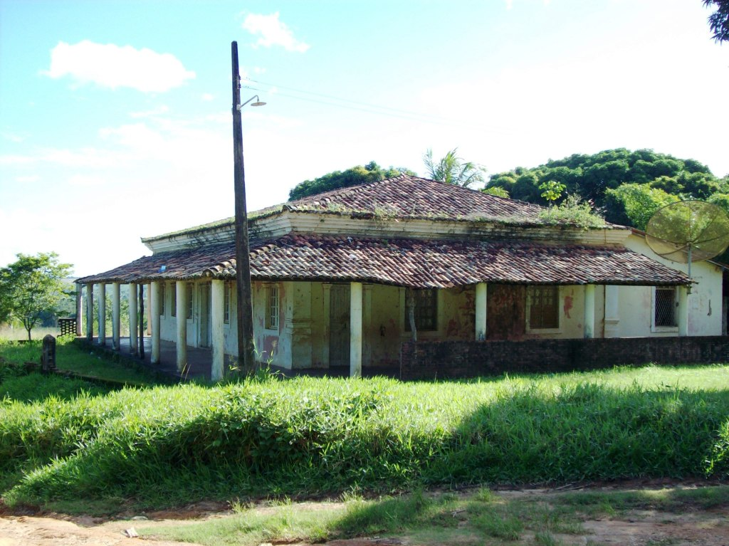 Pitimbue Beach